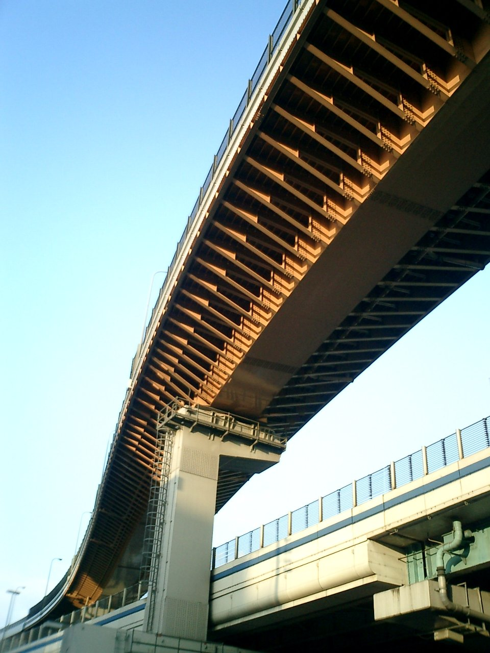 Kobe_Hamate_bypass